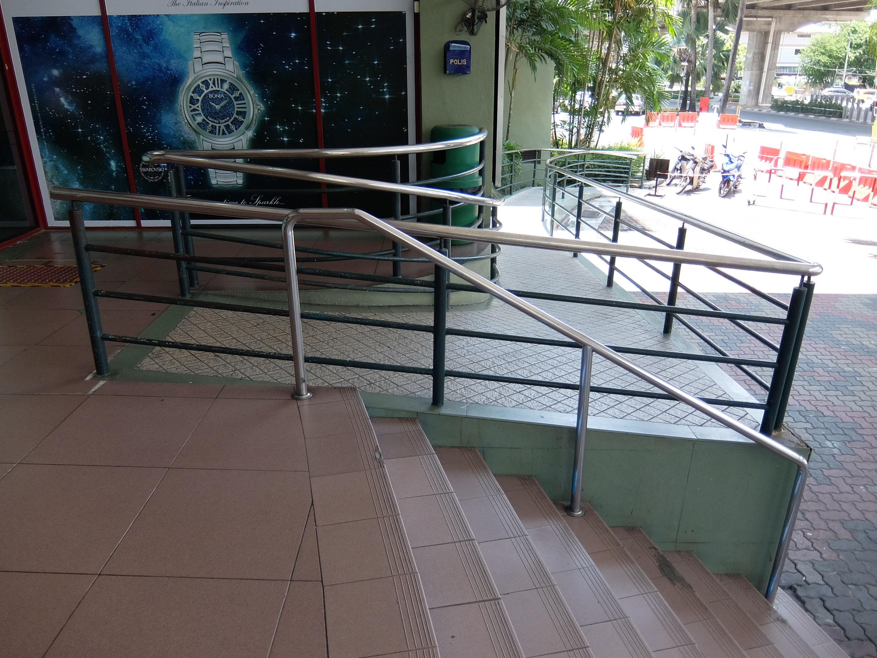 Star Parade, Alor Setar, Kota Setar, Kedah, Malaysia